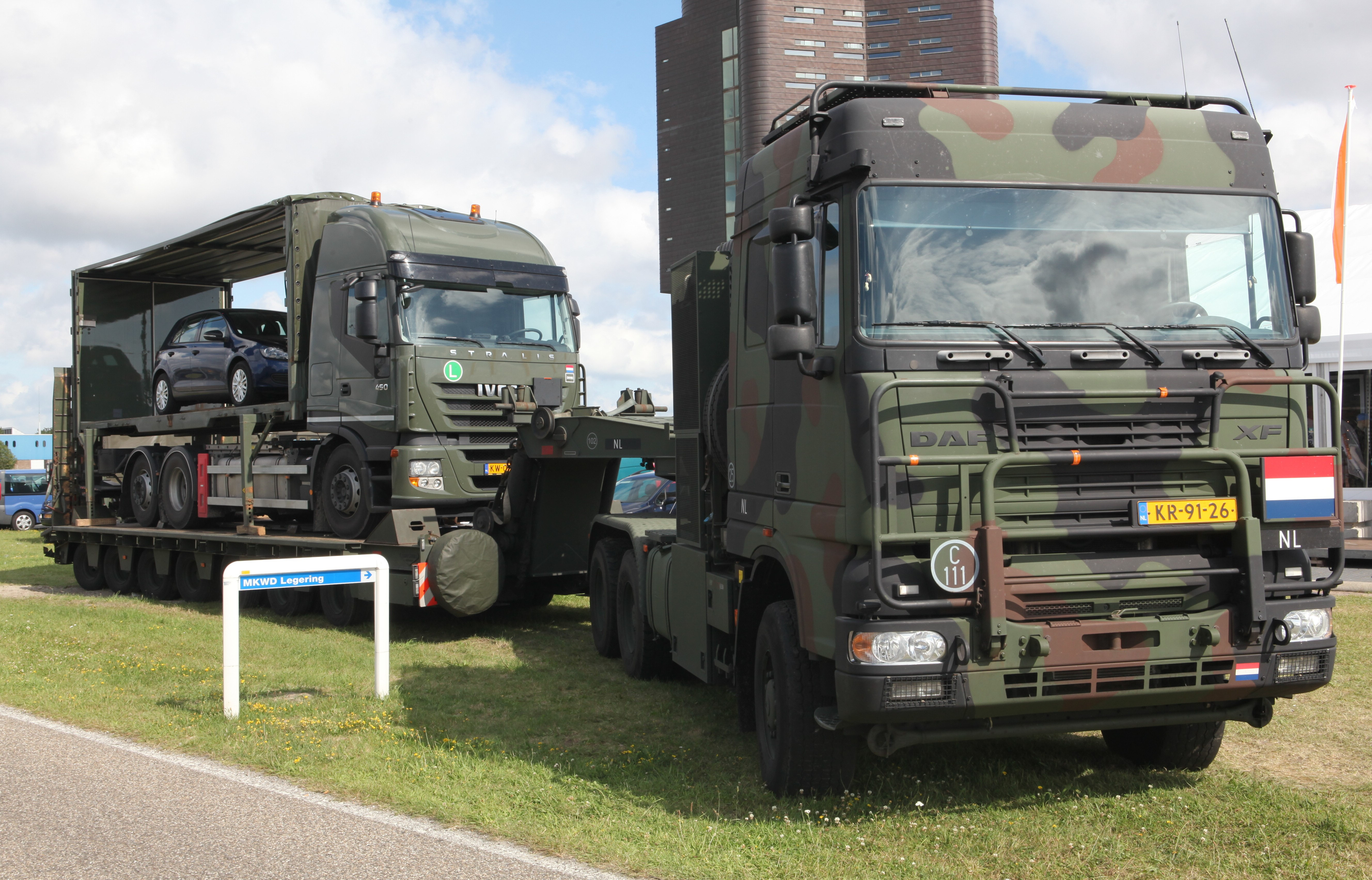 Daf Tropco 650 KN & Broshuis trailer